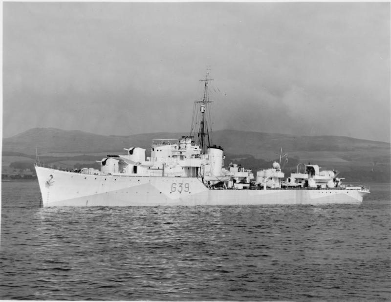 IWM caption : HMS OBDURATE at anchor.